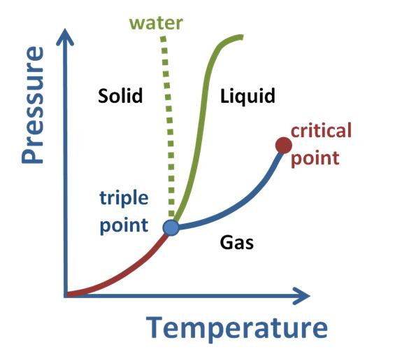 Simple pressure vs. temperature phase diagram for pure substance